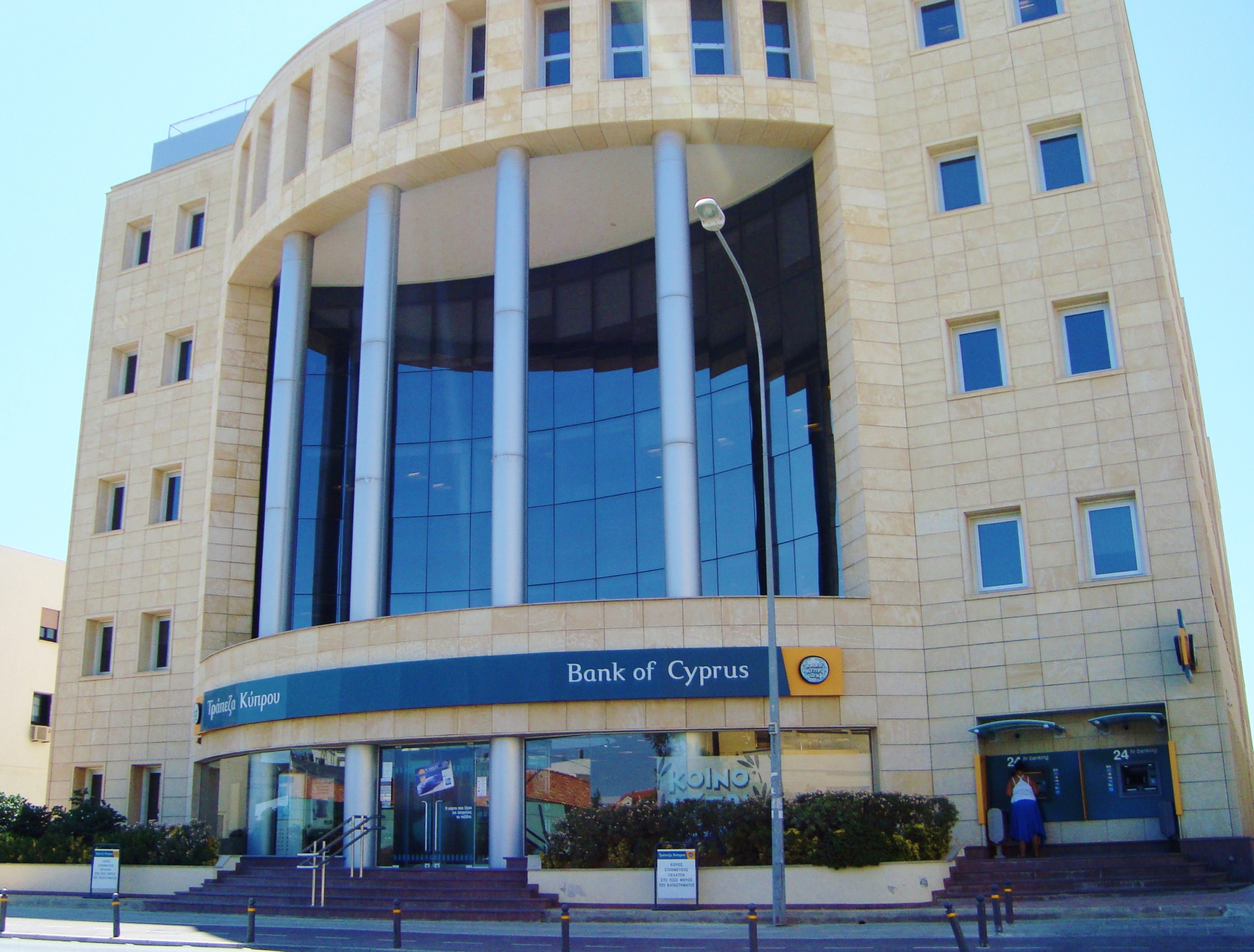 Bank of Cyprus huge offices in Aglandjia suberb of Nicosia Republic of Cyprus